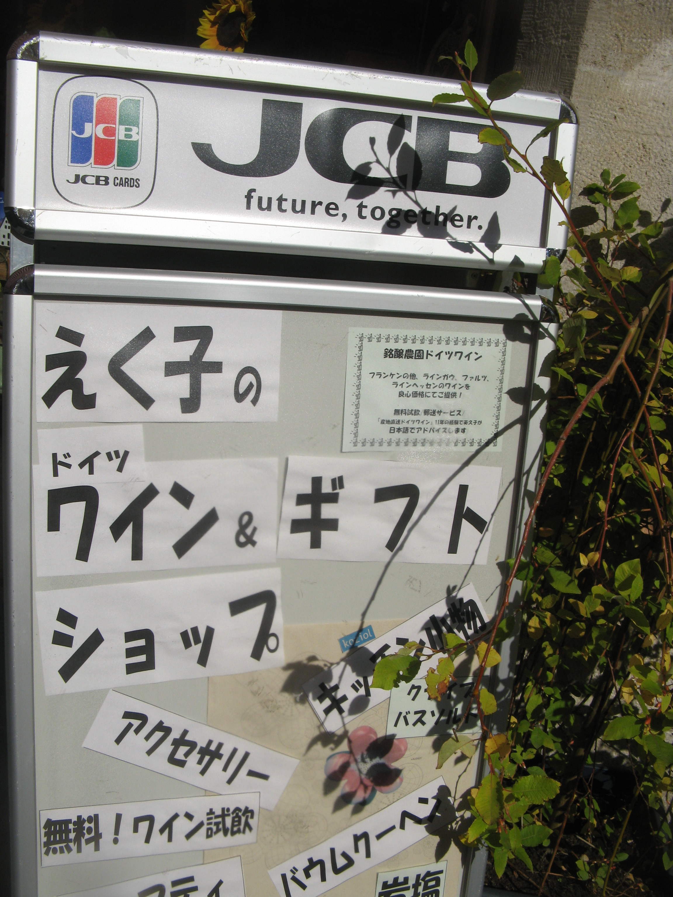 Japanese Advertising sign for the Japan Credit Bureau (JCB) in German town Rothenburg ob der Tauber. One of the favorite tourist destinations in Germany for Japanese.